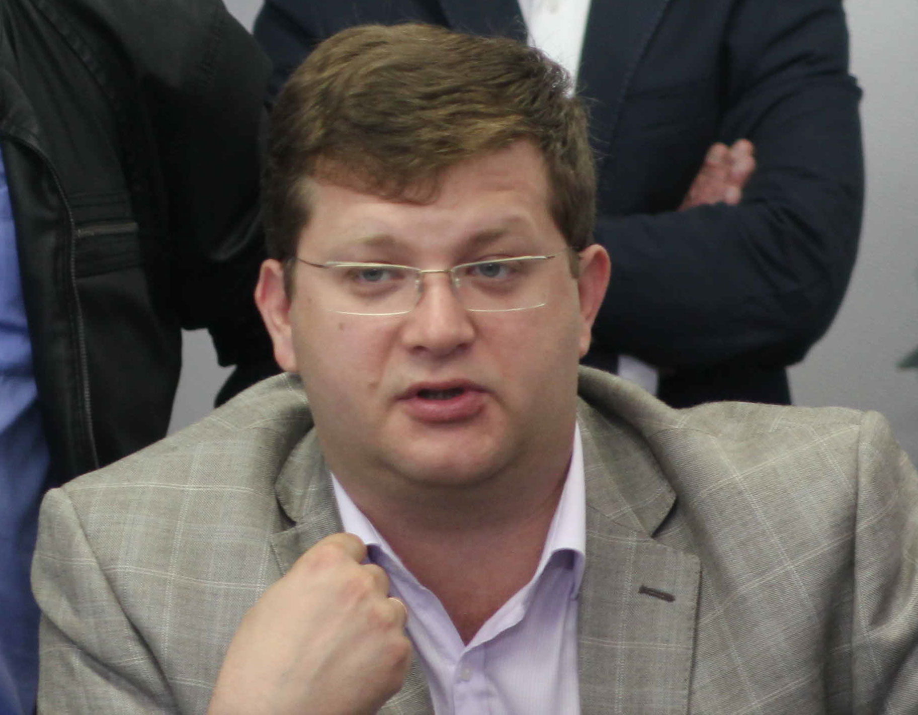 Volodymyr Ariev, Ukrainian politician, member of the Ukrainian Verkhovna Rada